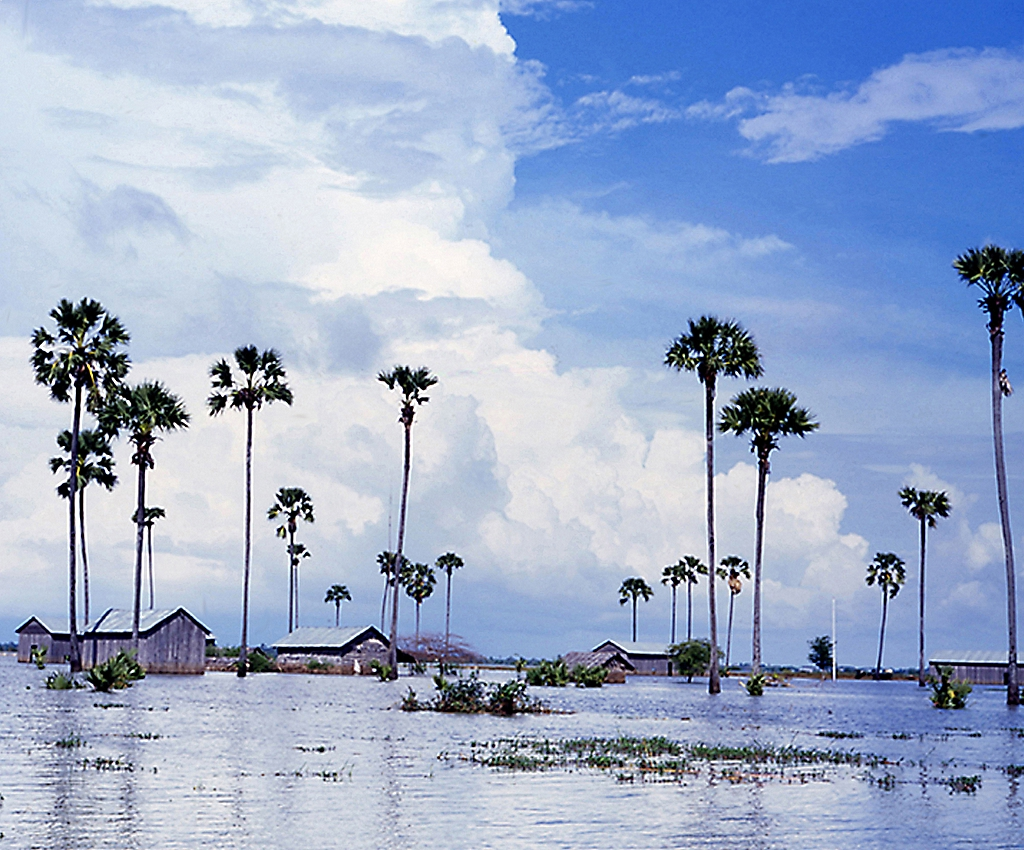 In Kampong Speu province, around 50 km from Phnom Penh, Cambodia. The native 'sugar palms' - Borassus flabellifer.